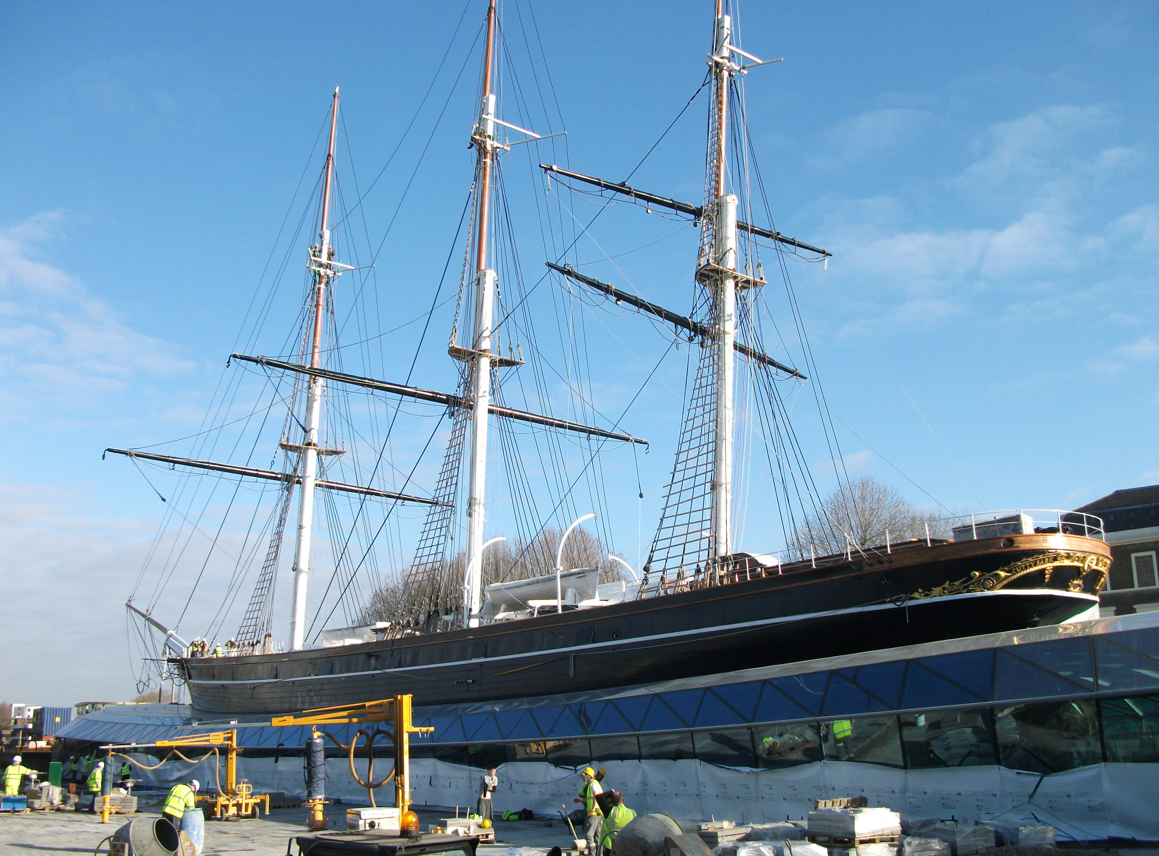 Shot of the clipper Cutty Sark in Greenwich, London, UK. Building work continuing to landscape the area surrounding the ship which is now re-emerging from surrounding scaffolding after reconstruction following the fire on the ship